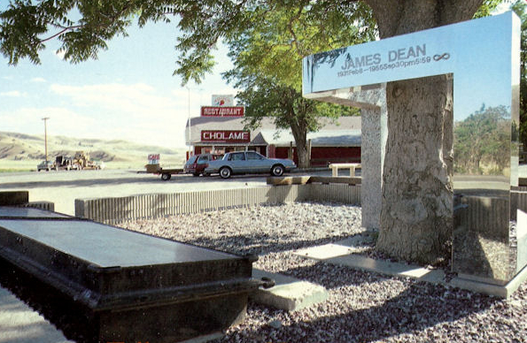 James Dean Memorial located in Cholame, California.